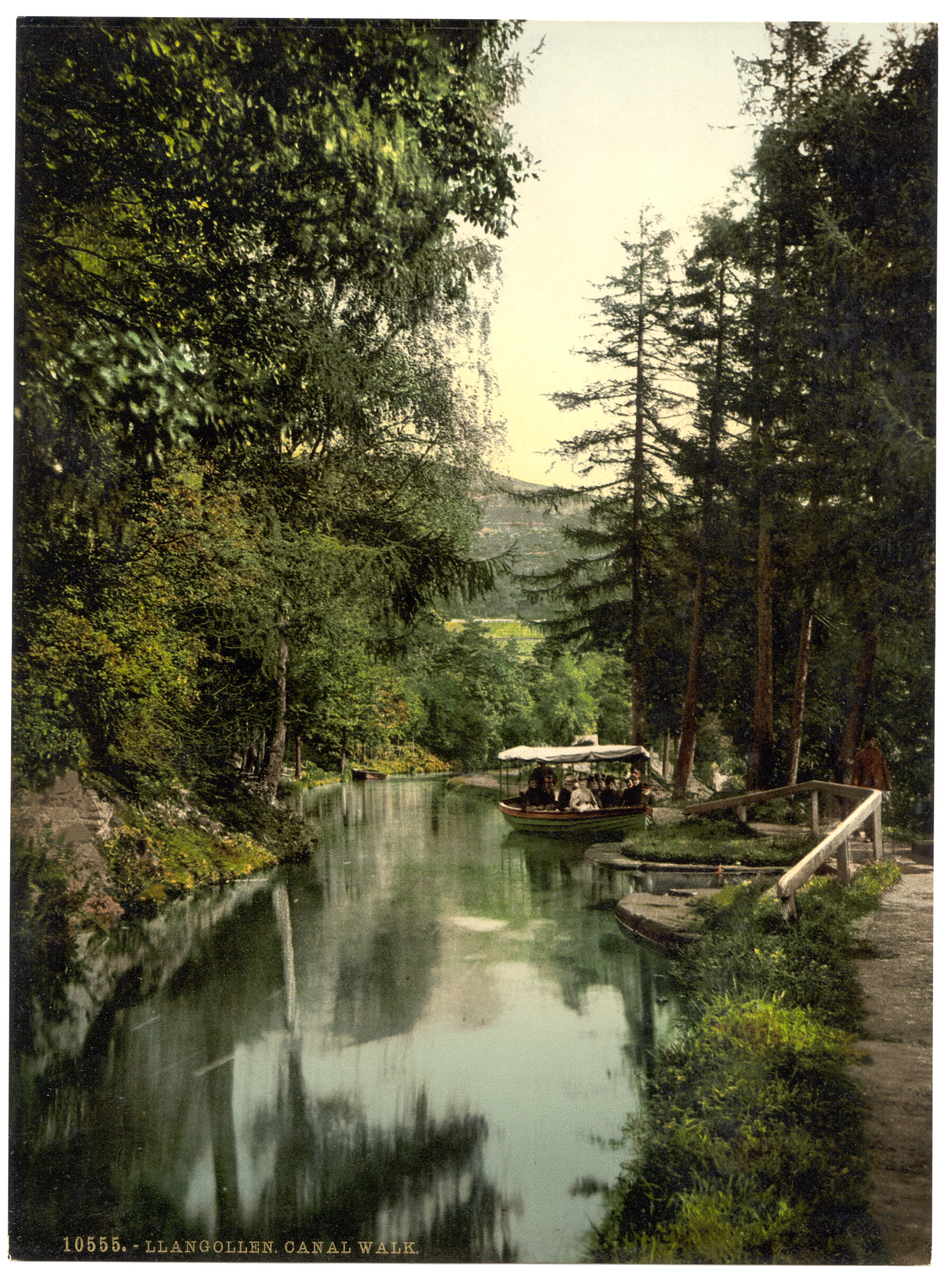 Title from the Detroit Publishing Co., catalogue J-foreign section. Detroit, Mich. : Detroit Photographic Company, 1905.; Print no. "10555".; Forms part of: Views of landscape and architecture in Wales in the Photochrom print collection.; More information about the Photochrom Print Collection is available at